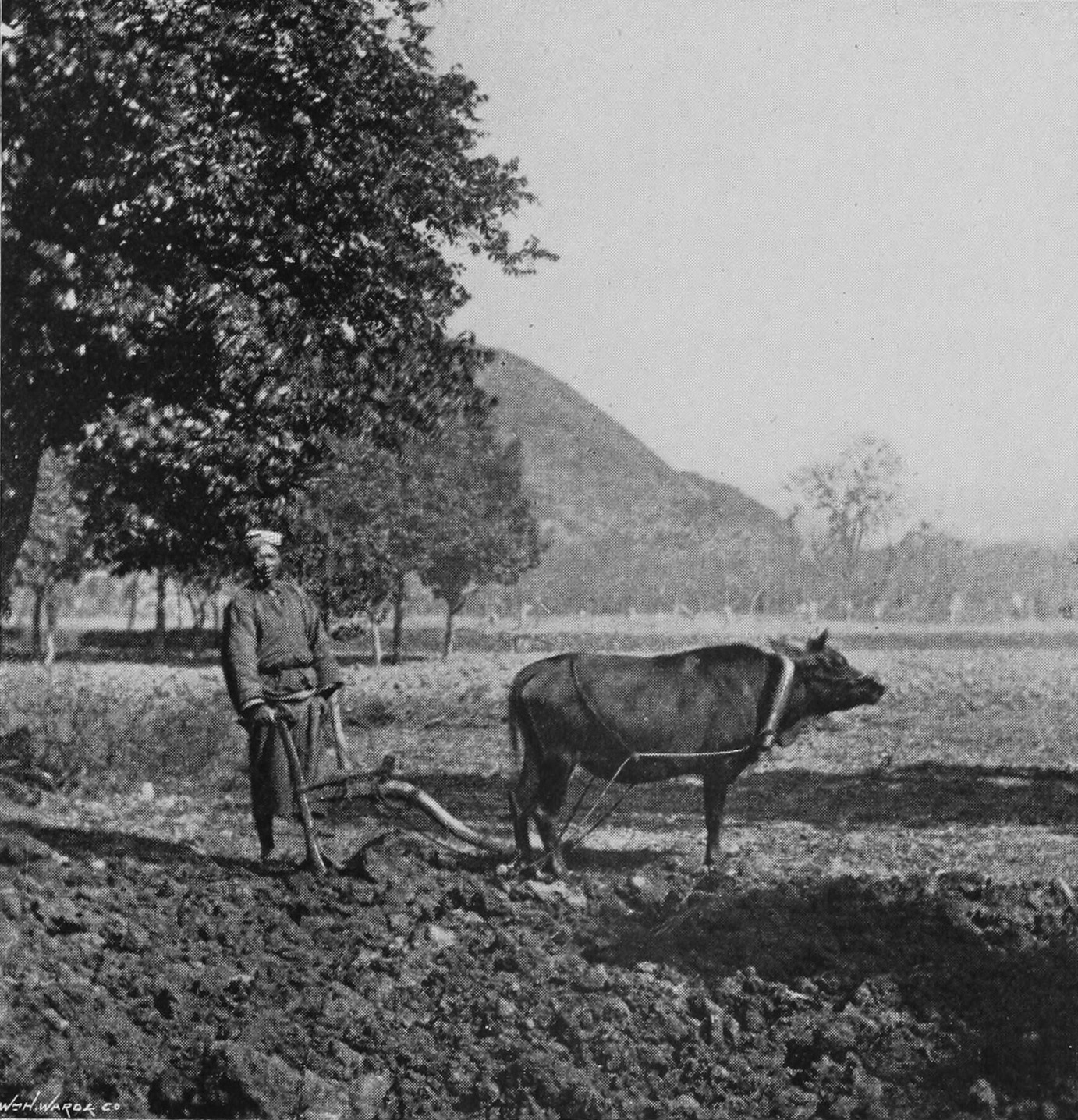 photo from Through China with a camera